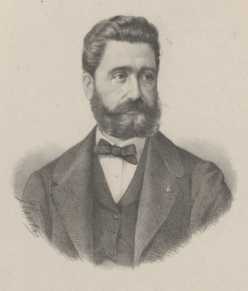 Joaquín Gaztambide (lit. ca.1866-1872).